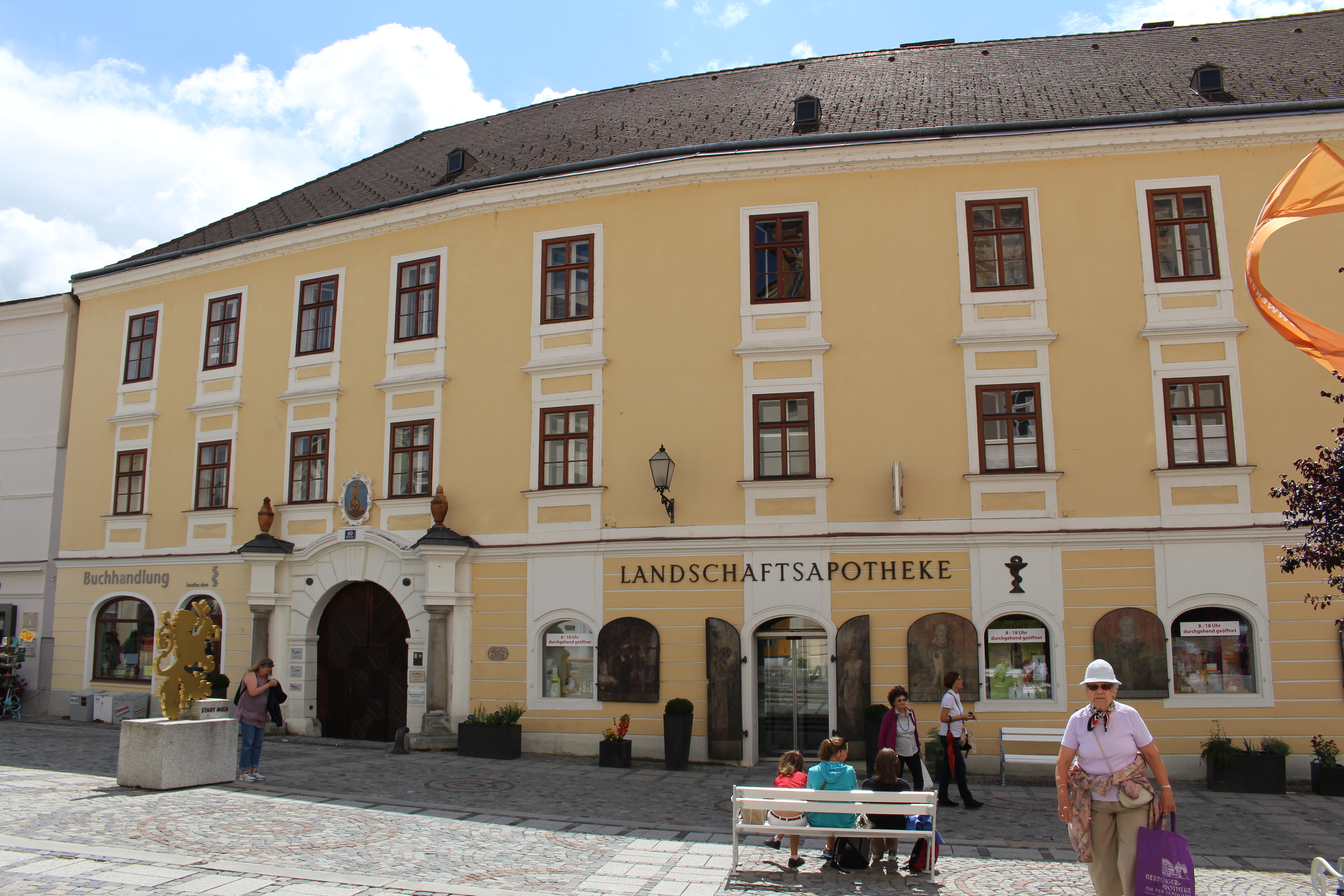 House Rathausplatz 10, Melk, Austria.